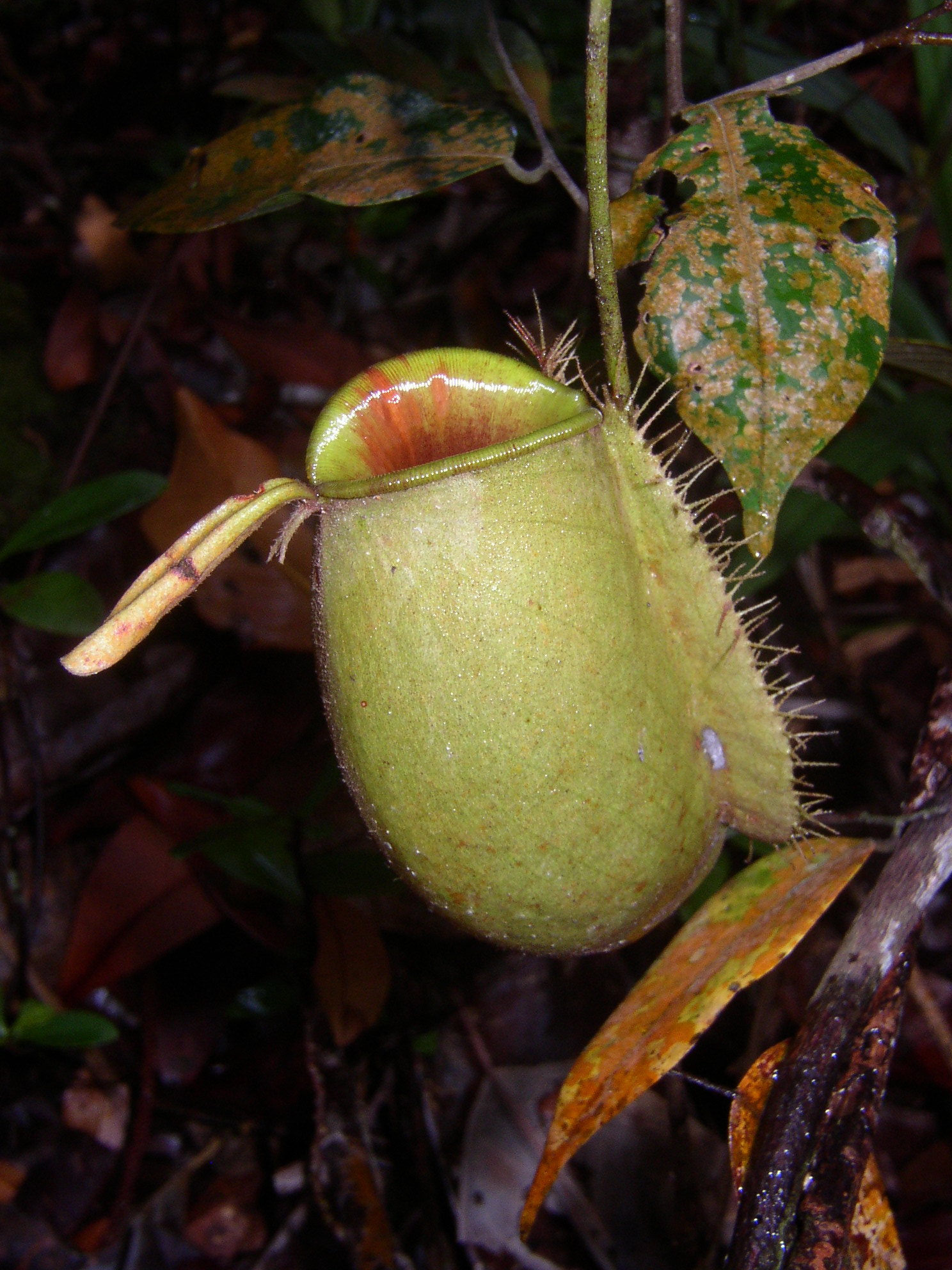 Nepenthes ampullaria